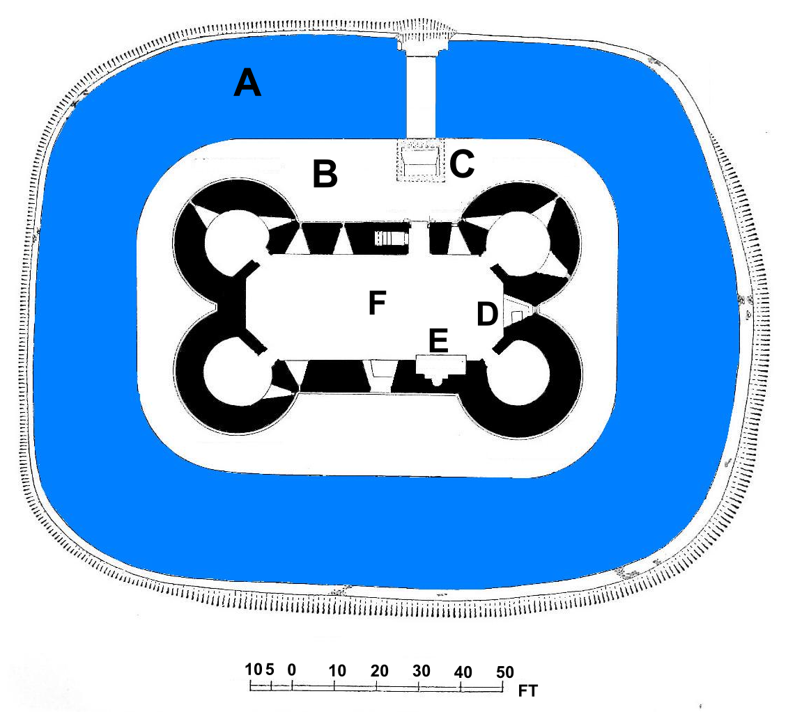 Plan of Nunney Castle, cleaned up and coloured by hchc2009